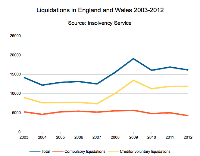 Corporate insolvency statistics 2003-2012. Source: data from the Insolvency Service